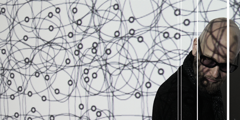 Don Li at Orbital Garden 2012 Switzerland